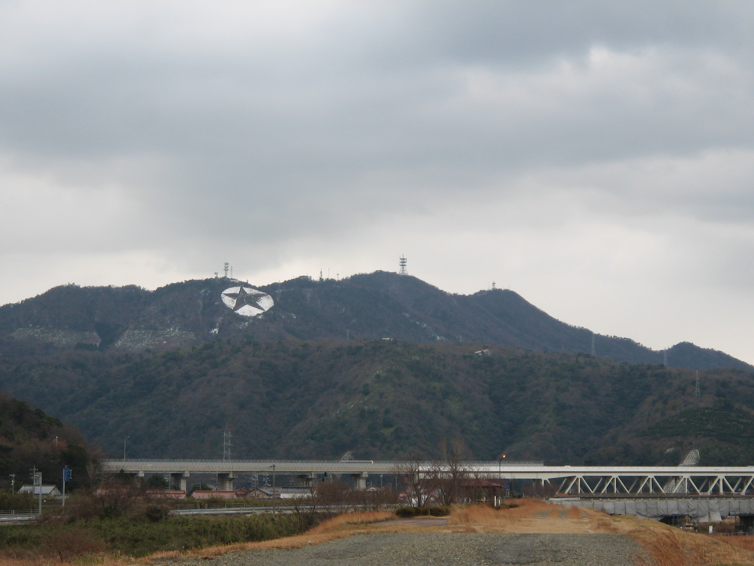 Hoshitaka Mountain in Gotsu, Shimane, Japan